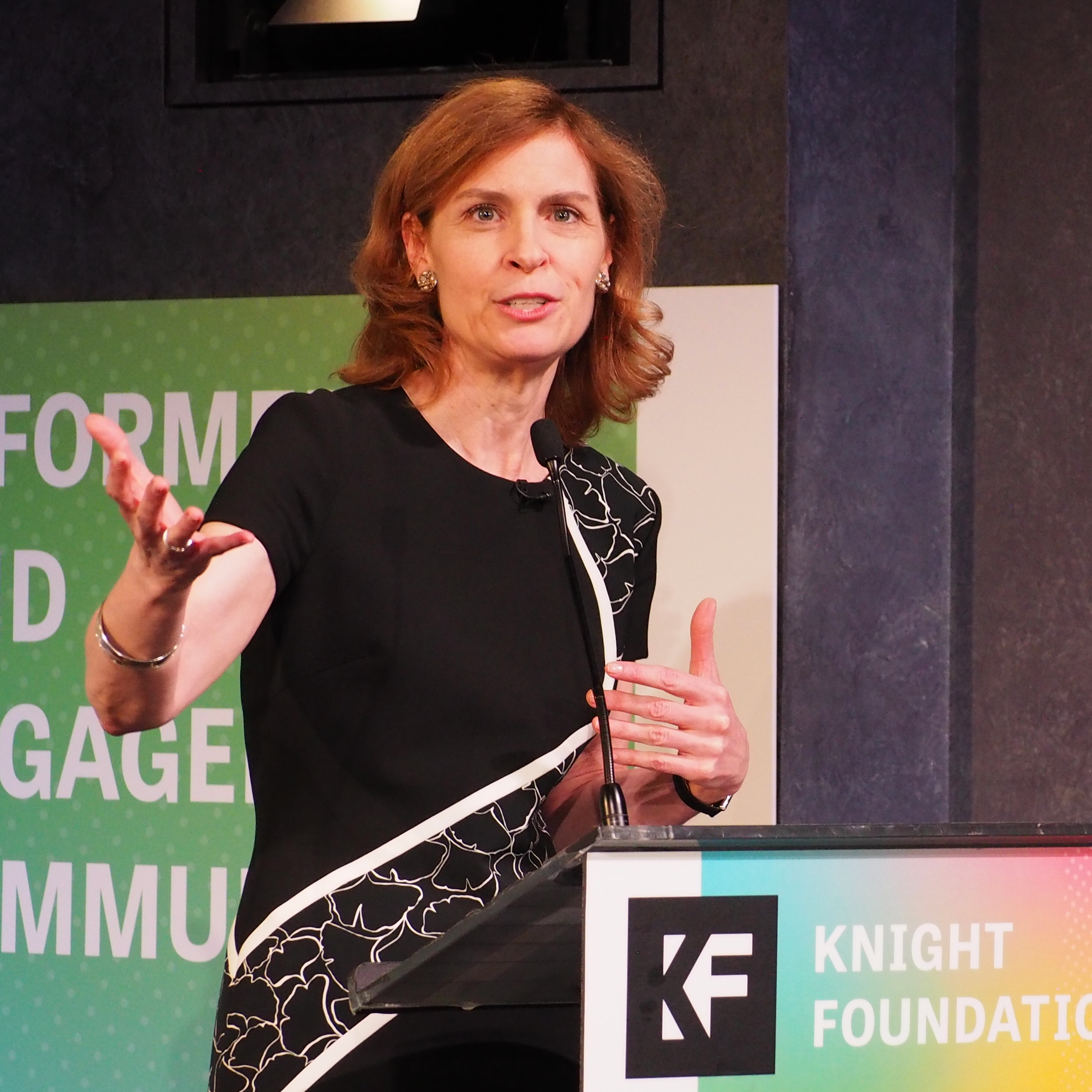 Susan P. Crawford delivers the keynote lecture at a Knight News Challenge event at the Paley Center for Media in New York City on November 16, 2017.